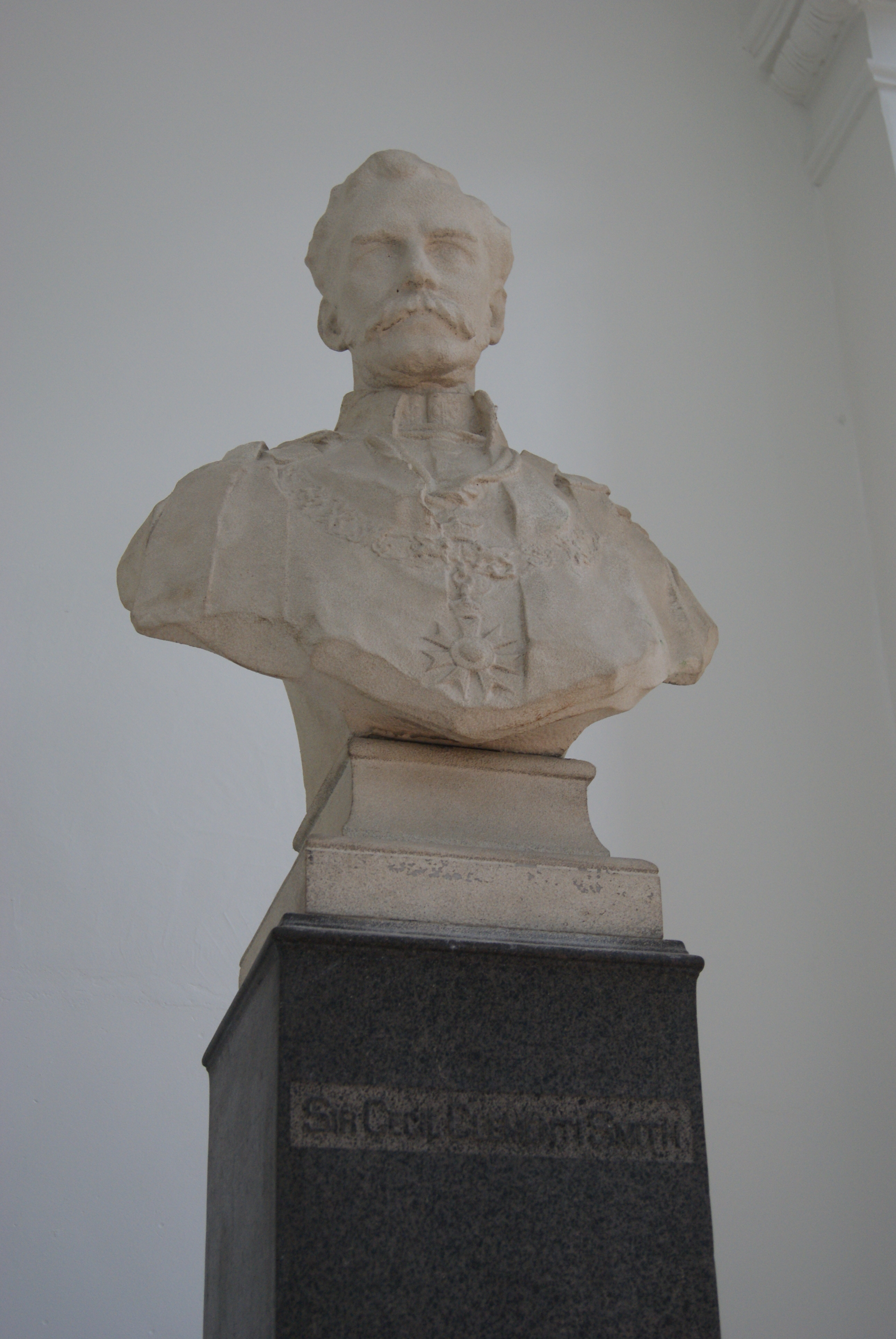 A bust of Sir Cecil Clementi Smith (23 December 1840 – 6 February 1916), Governor of the Straits Settlements from 1887 to 1893, in Victoria Concert Hall, Singapore. The photograph was taken after the building reopened on 15 July 2014 following renovations.